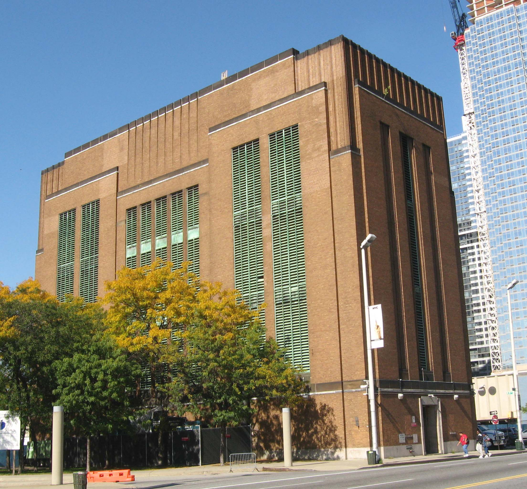 Looking north at Manhattan ventilation tower of Lincoln Tunnel on a sunny afternoon. Silver Towers under construction in background.